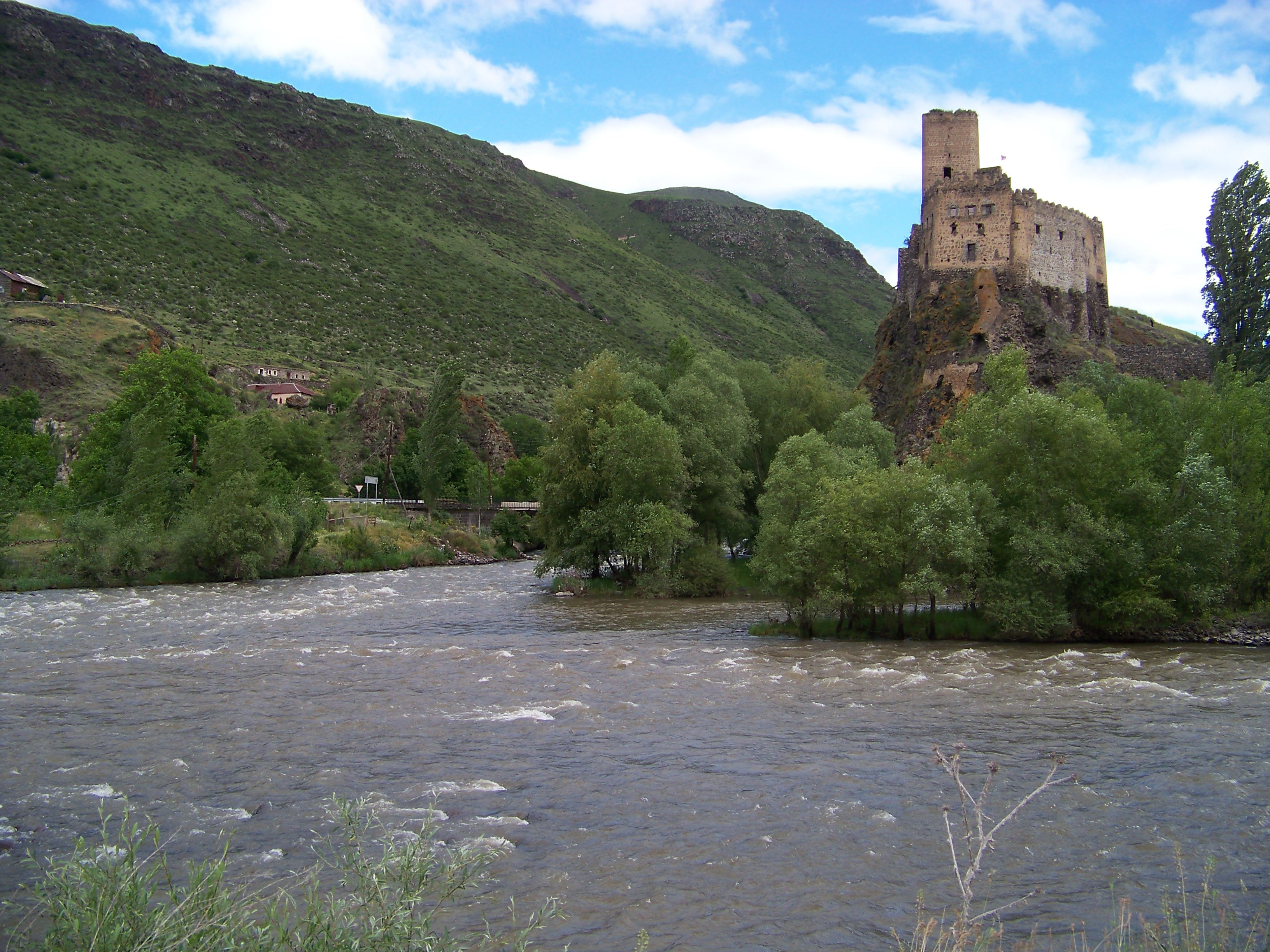 One of the oldest fortresses in Georgia, Khertvisi Fortress